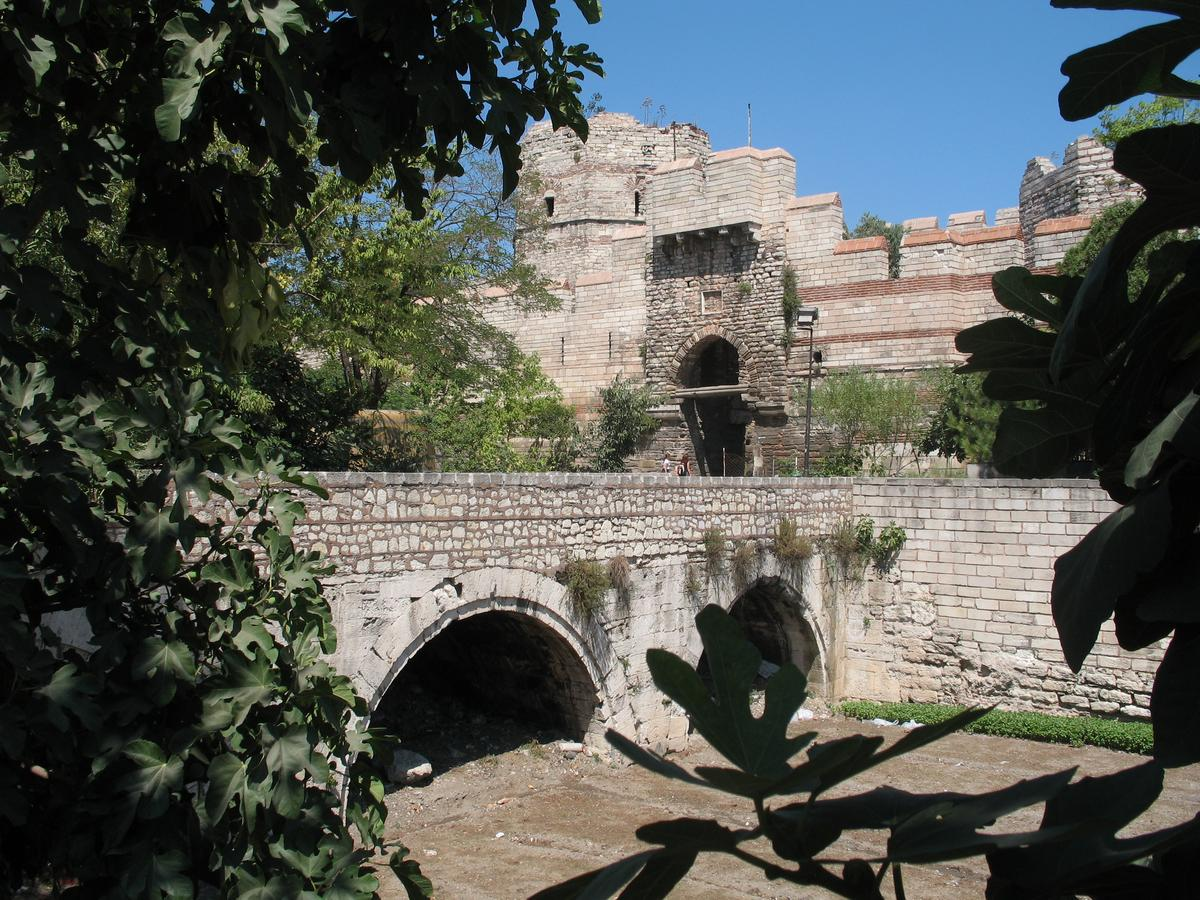 The Theodosian Walls in Constantinople. Bridge and the Gate of Springs(Silivri).